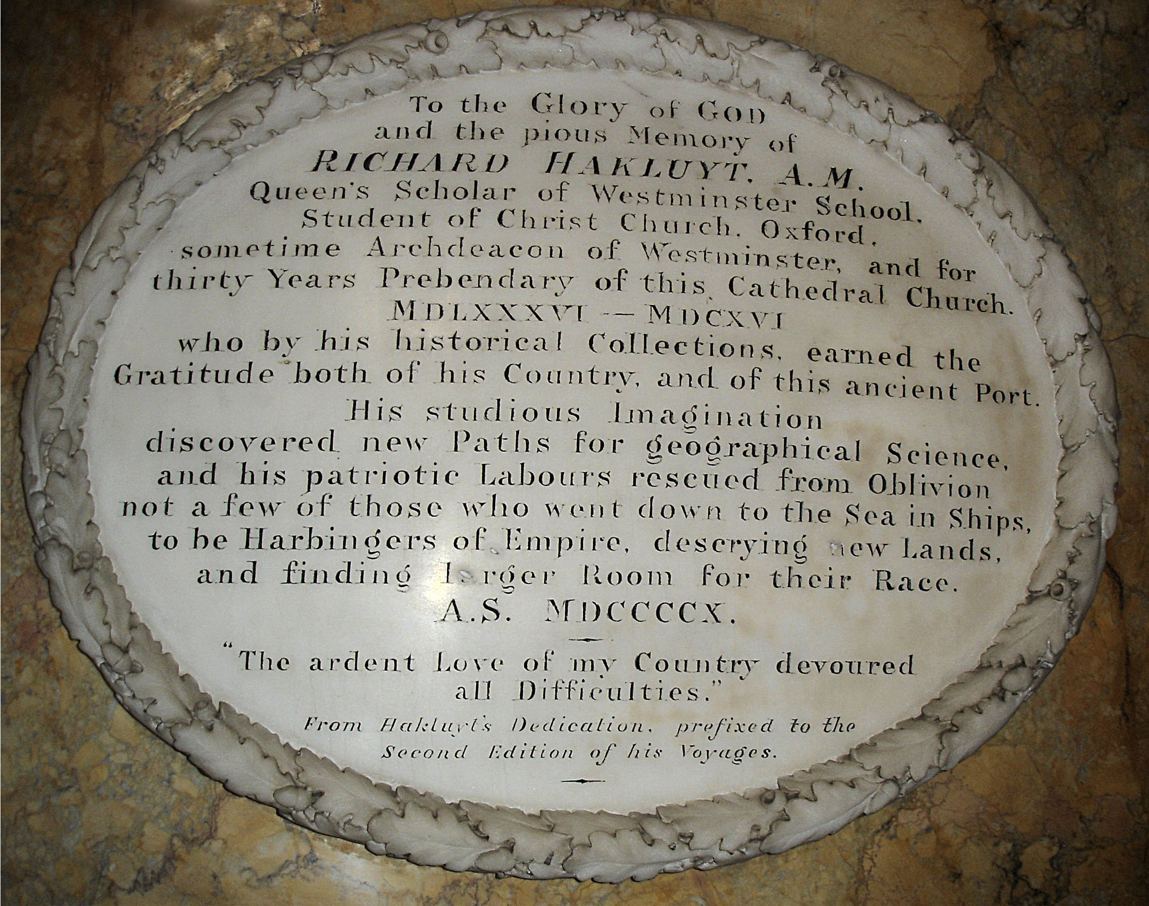 Memorial tablet to English writer Richard Hakluyt (c. 1552 or 1553 – 23 November 1616), installed in 1910 in the North Quire Aisle of Bristol Cathedral.